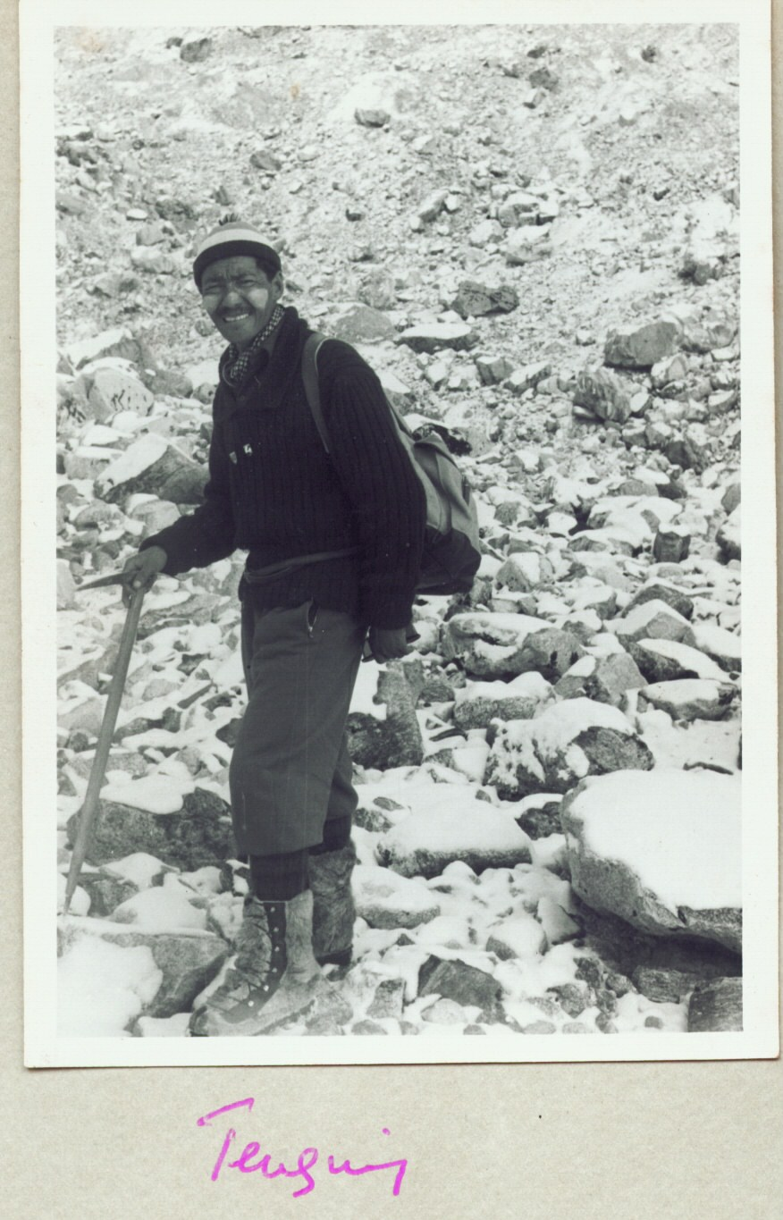 Tenzing. Photo from the collection of John Henderson.